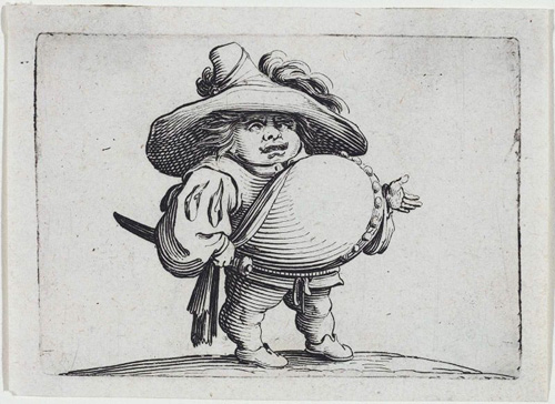 Mansion House Dwarf